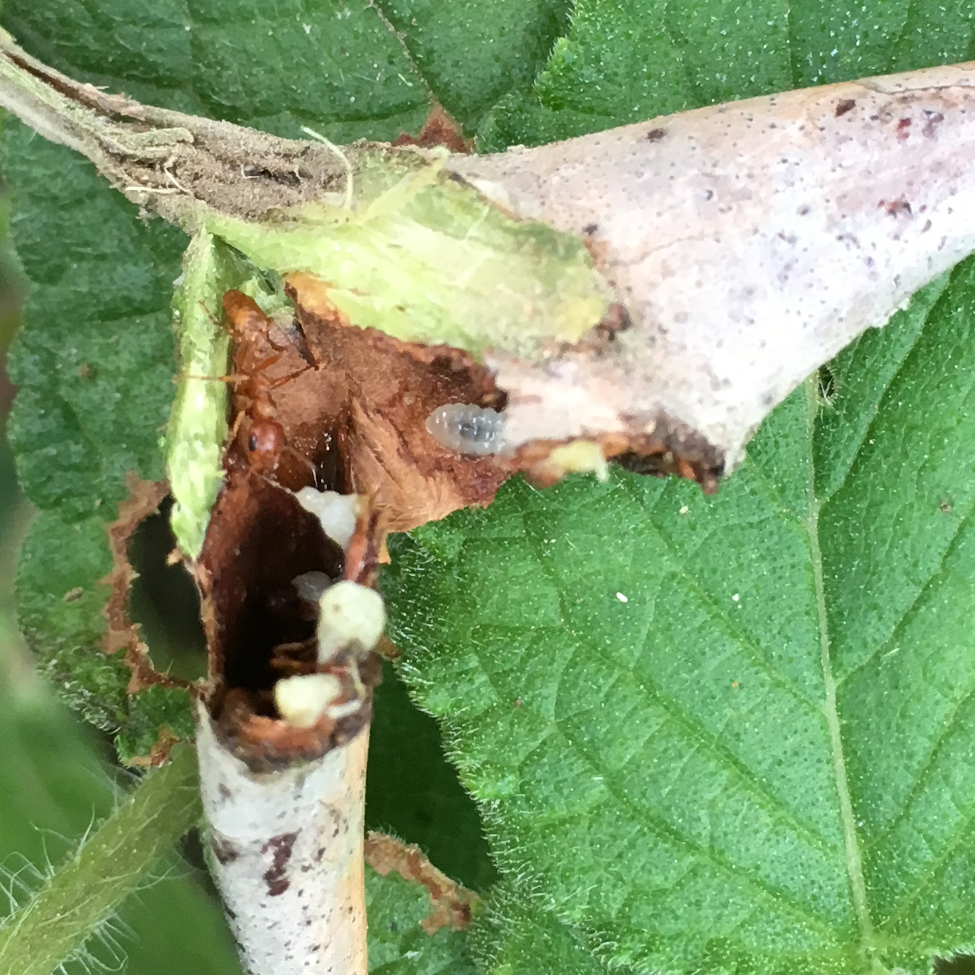 A bullhorn acacia (Vachellia cornigera) thorn that's been broken open, revealing the acacia ants (Pseudomyrmex ferruginea) inside. There is one adult worker, several larvae, and potentially pupae.